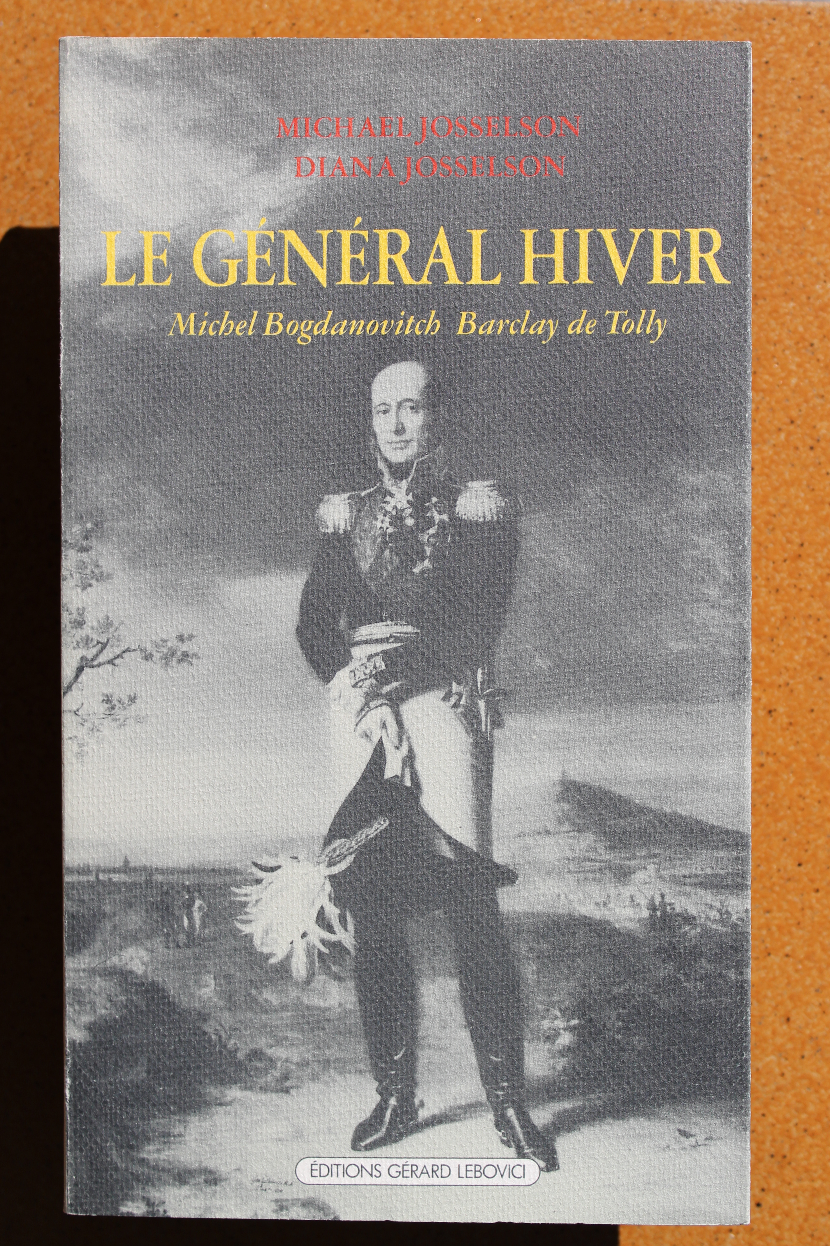 Michael Josselson book about Michael Barclay de Tolly